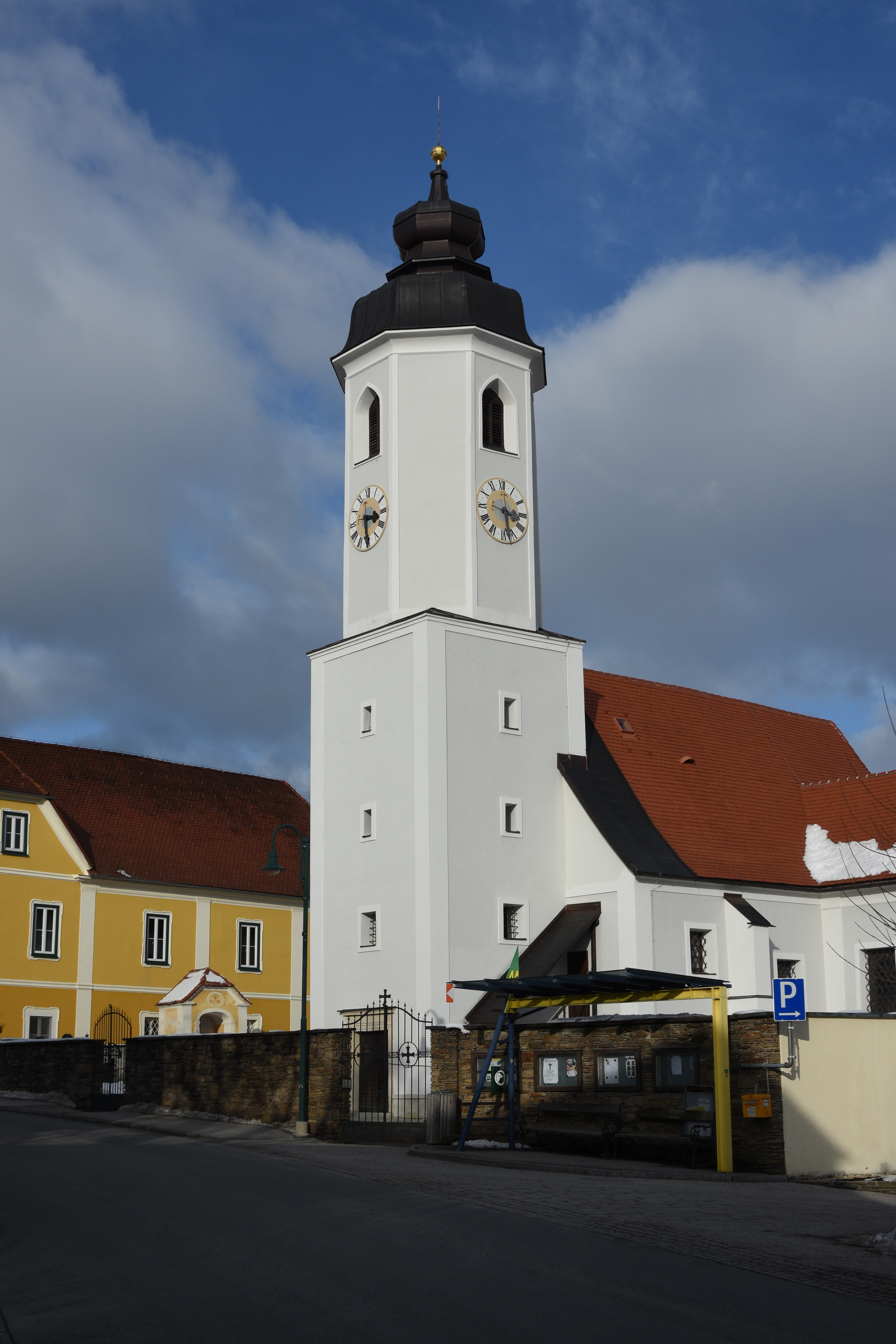 Saint Cunigunde of Luxembourg Church (Miesenbach bei Birkfeld)